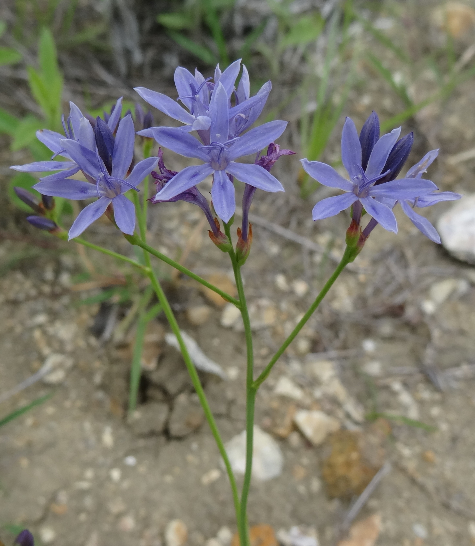 Lapeirousia erythrantha